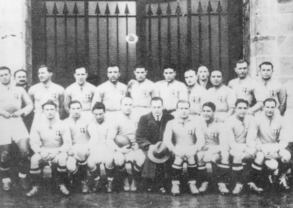 Italy national rugby union team in 1933 in Milan before a test match against Czechoslovakia